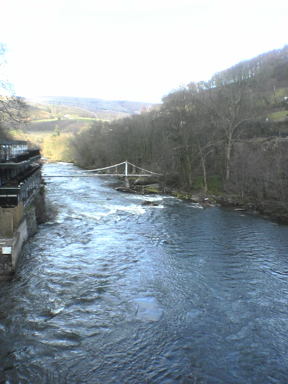 The Horseshoe Falls, about 300 metres upstream from here The River Dee seen from the road bridge at grid reference SJ197432 about three miles west of the town of Llangollen, Denbighshire, Wales. The suspension bridge has given its name to The Chainbridge Hotel part of which can be seen on the left. Out of shot on the left is the start of the Llangollen Canal. Out of shot on the right is Berwyn Station of the Llangollen Railway.